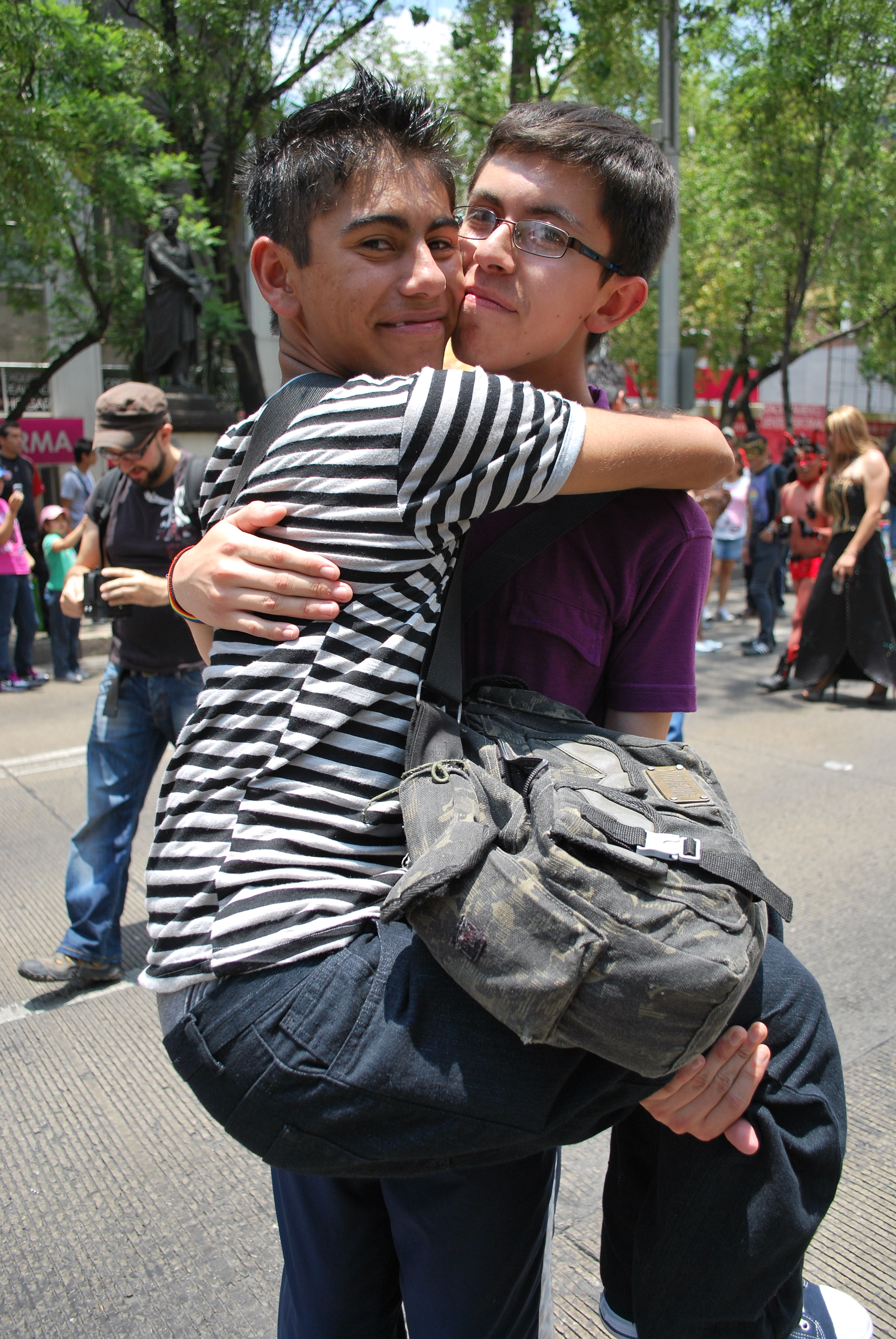 Participants in the 2012 Marcha Gay in Mexico City